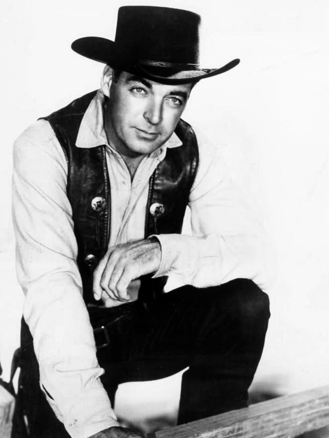 Photo of Rory Calhoun as Bill Longley from the television program The Texan.